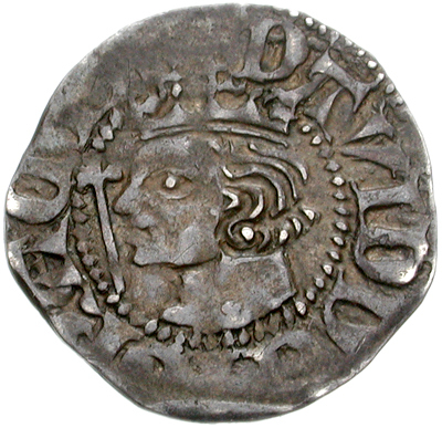 Scotland. David II of Scotland. 1329-1371. AR Penny (18mm, 1.31 g, 12h). First coinage, second issue. Edinburgh mint. Struck circa 1351-1357. +DAVID DEI GRACIA, crowned head left; scepter before [REX] SCT TOR Vm+, long cross; mullets in quarters. Burns 2 (fig. 230); SCBI 35 (Ashmolean & Hunterian) -; SCBC 5087 var. (rev. legend).